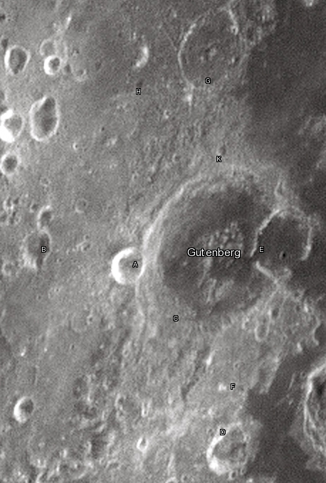 Gutenberg lunar crater as seen from Earth with satellite craters labeled